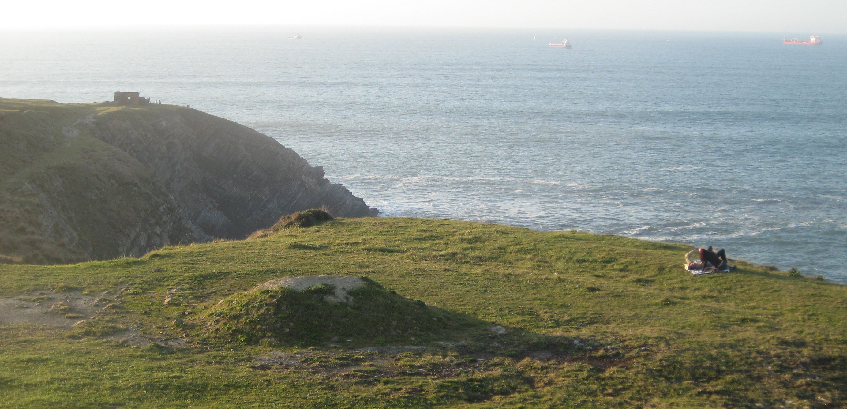 Fields and ruins (knwon as the Castle at Kobaron / Covarón point, Muskiz, Biscay